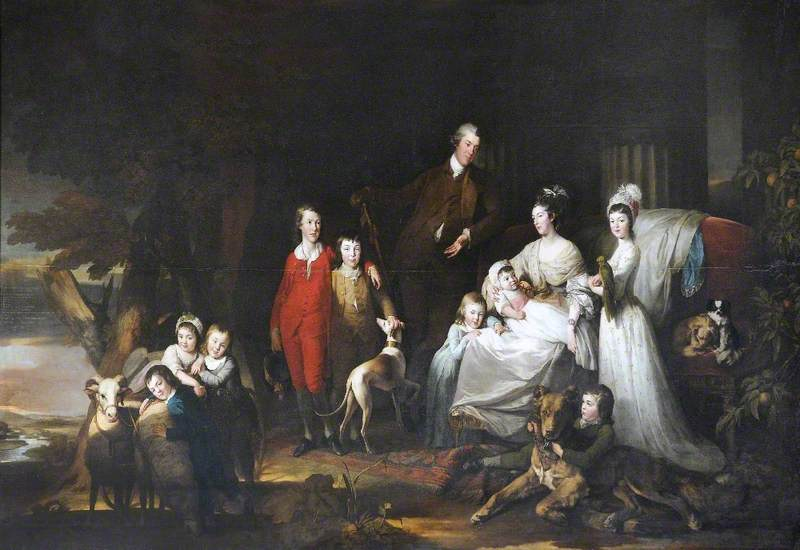 Group portrait of the family of Henry Dawkins (1728–1814).